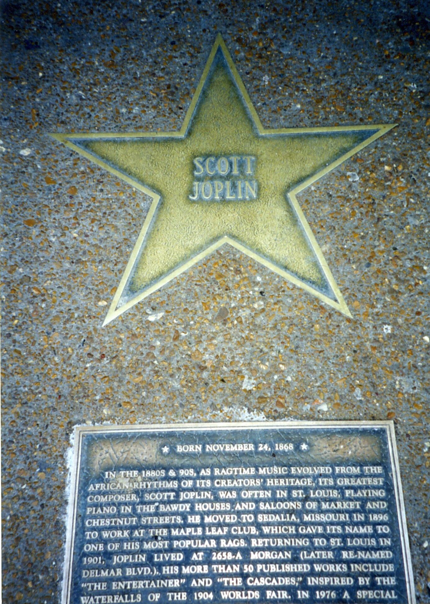 Scott Joplin's star on the St.Louis Walk of Fame, 6504 Delmar Boulevard, St.Louis, MO